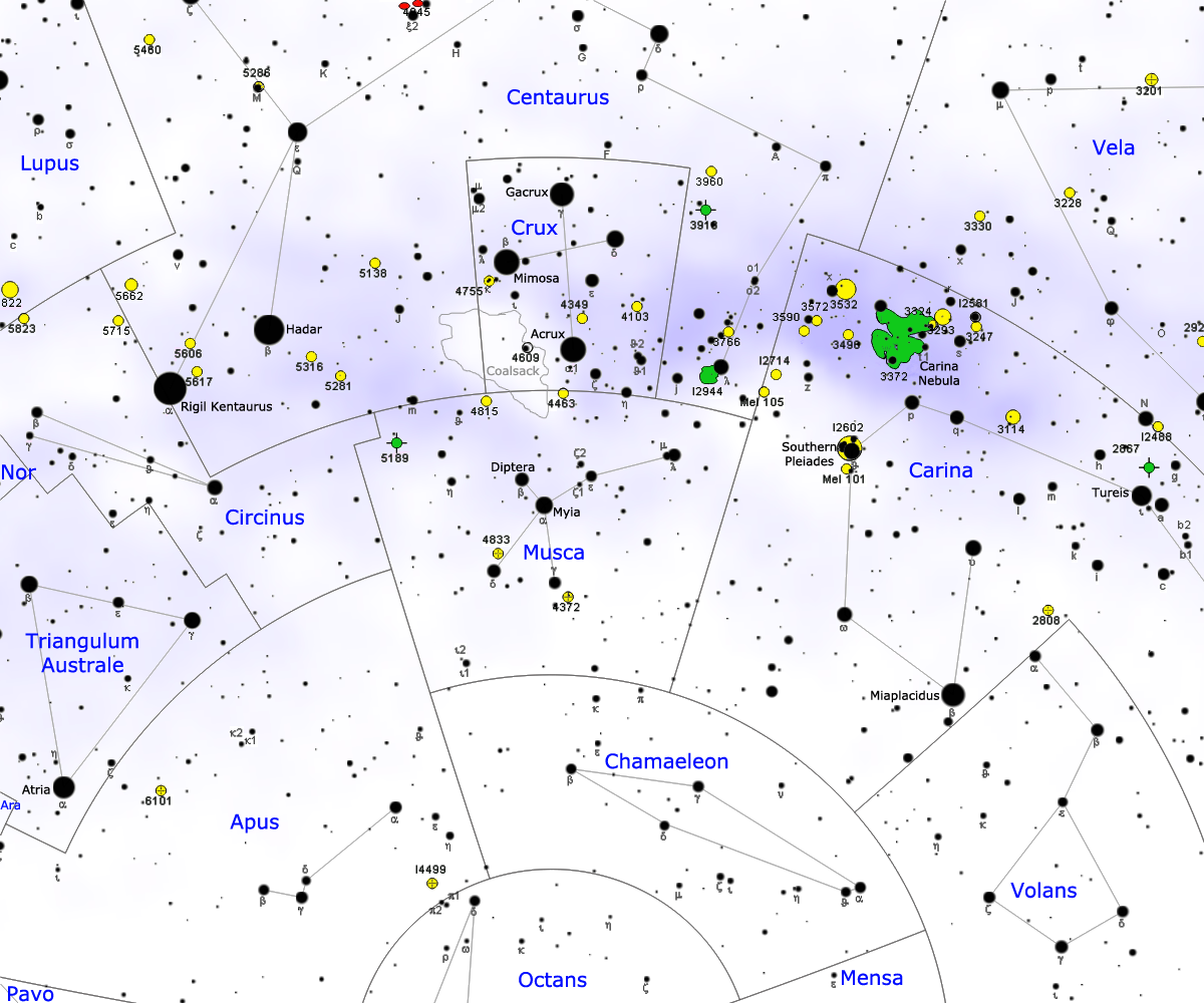 Map of Musca